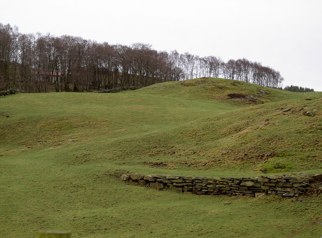 Landscape and stone walls at Finnøy, Rogaland, Norway.